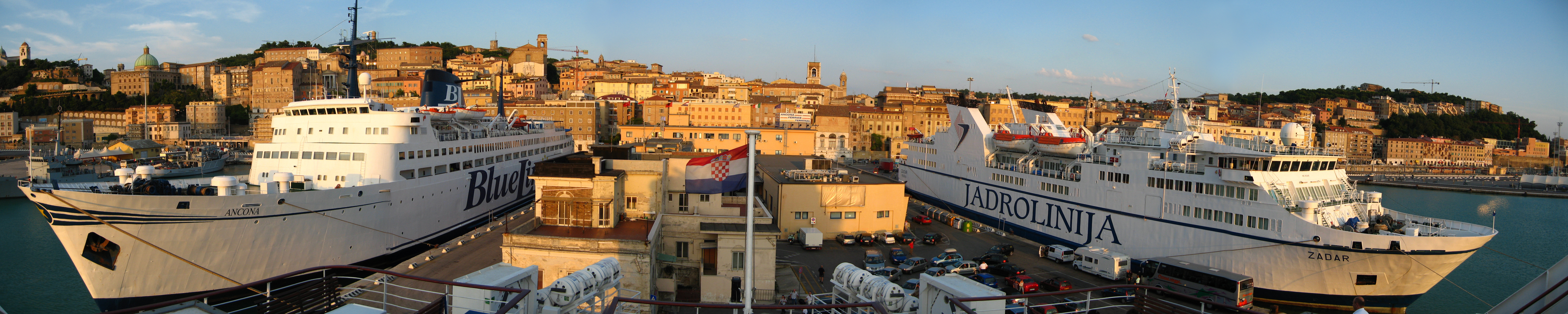 Blue Line Ferry "Ancona" and Jadrolinija Ferry "Zadar", Porto di Ancona, Italy. Ancona Flag:Panama IMO Number: 6608098 MMSI Number: 356955000 Callsign: HOWF Length: 141 m Beam: 21 m Zadar Flag:Croatia IMO Number: 9021485 MMSI Number: 238201000 Callsign: 9A9766 Length: 116m Beam: 19 m